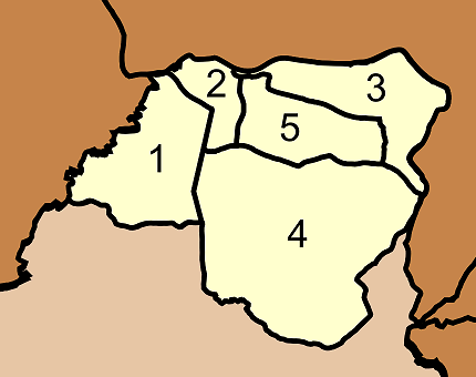 Map of Ratsada district, Trang province, Thailand, with the communes (tambon) numbered. Khuan Mao (ควนเมา) Khlong Pang (คลองปาง) Nong Bua (หนองบัว) Nong Prue (หนองปรือ) Khao Phrai (เขาไพร)